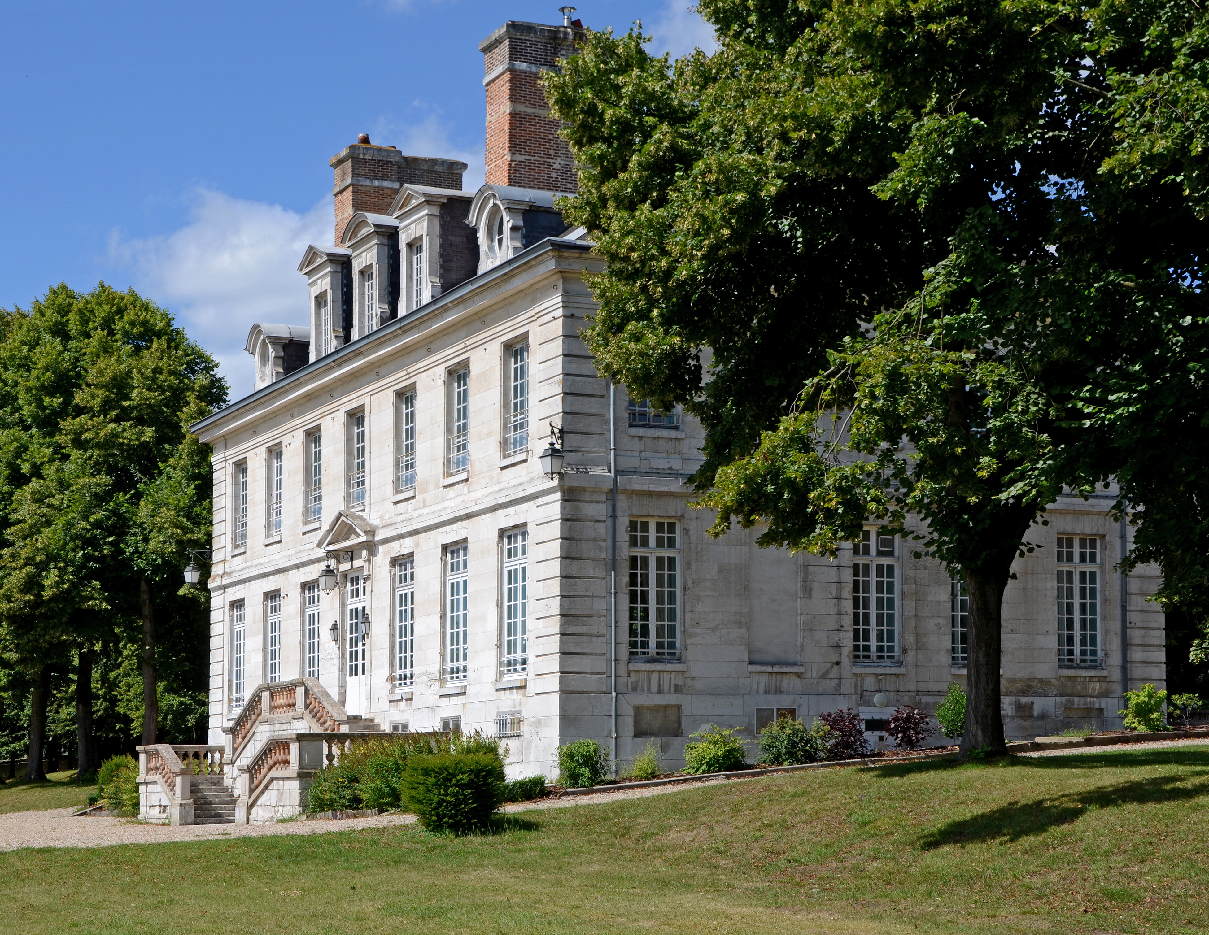 Castle of Hautot sur Seine, Seine Maritime, France